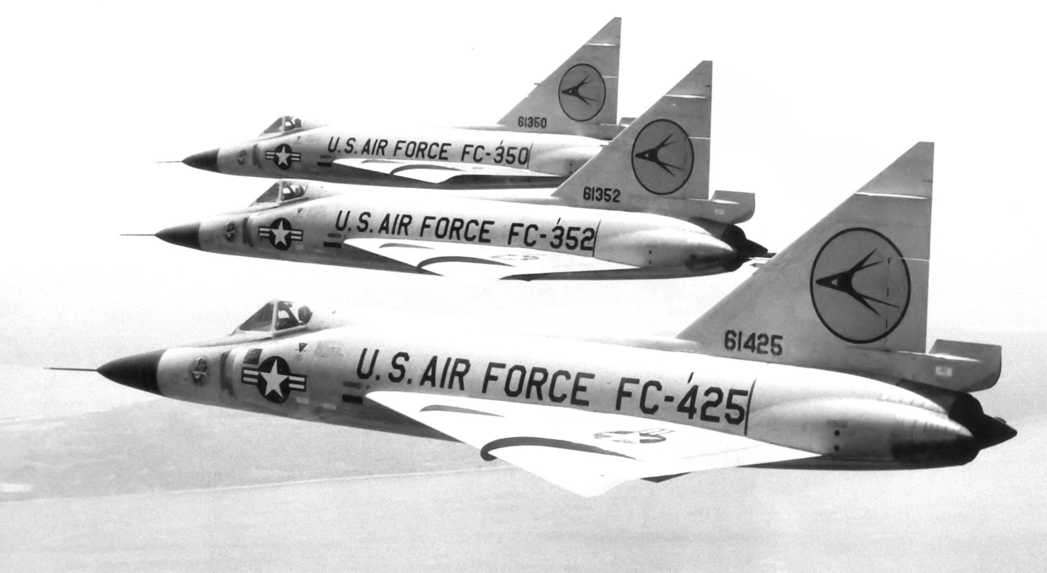 318th Fighter Interceptor Squadron Convair F-102A-75-CO Delta Daggers 325th Fighter Group, McChord AFB, Washington, July 1958 Identified aircraft: 56-1425 56-1352 and 56-1350